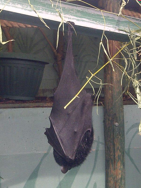 Livingstone's fruit bat (Pteropus livingstonii) at the Bristol Zoological Gardens, England.